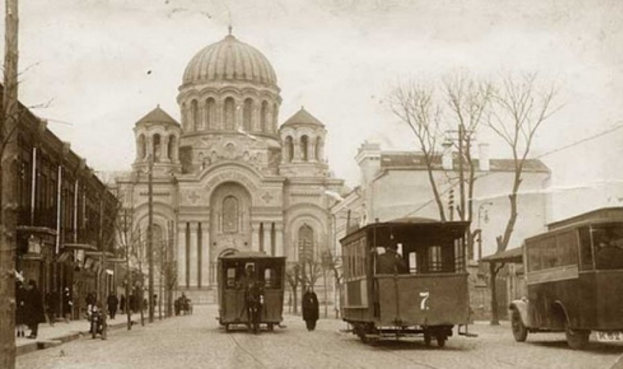 Kaunas, Lithuania during the inter-war times.